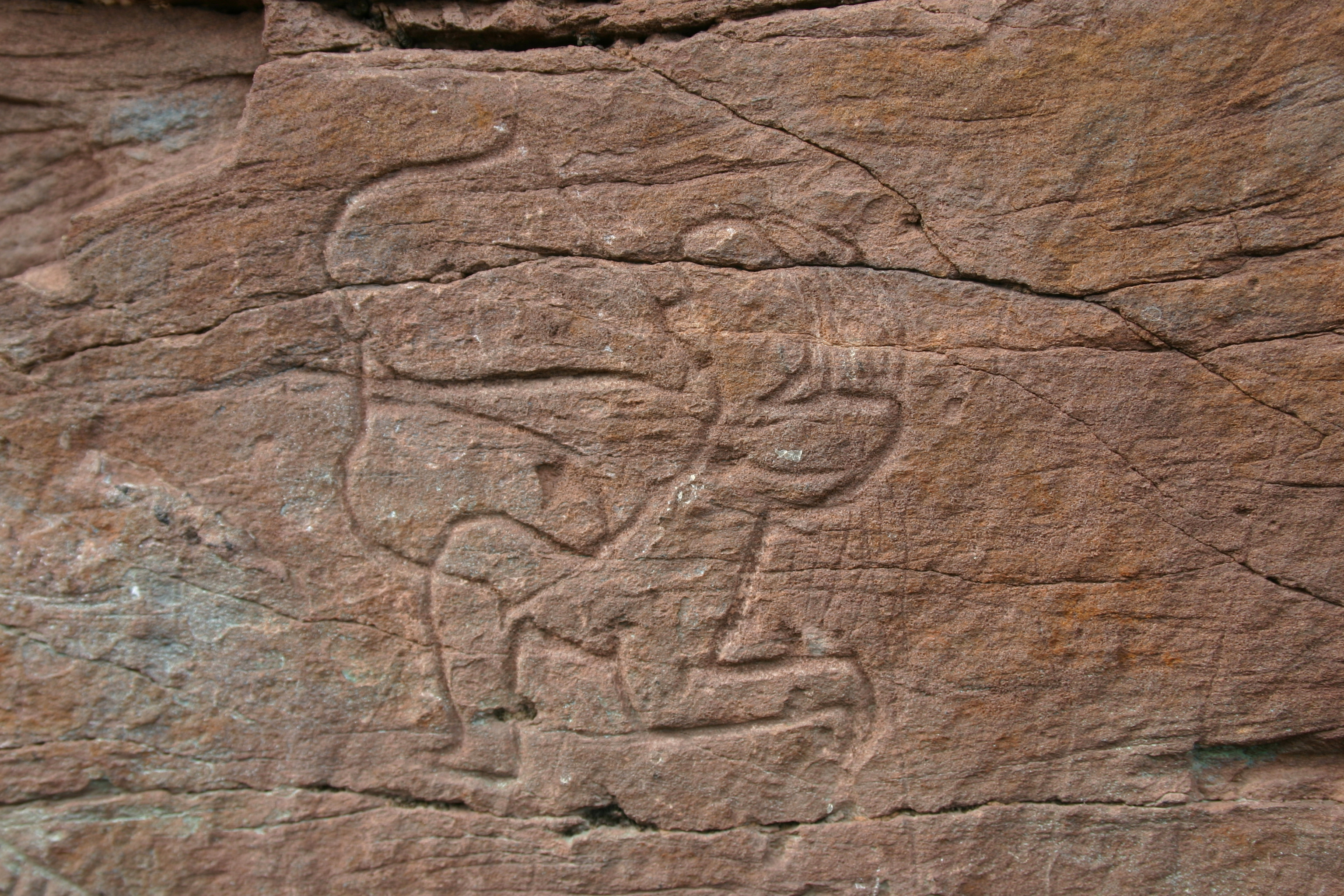 Archer. Fragment of Sulekskaya Pisanitsa. Republic of Khakassia